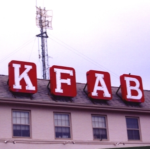 Photographer: Rich Jeffrey Picture of KFAB Radio Station sign atop their building. Taken in 1999.